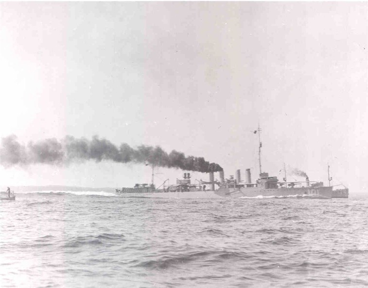 The U.S. Navy light minelayer USS Lansdale (DM-6) steaming at high speed on two boilers, circa 1921, following conversion to a light minelayer. The Mine Force emblem is painted on her bow, and mines are resting on their tracks aft. Though redesignated DM-6 in July 1920, Lansdale probably continued to wear her destroyer number "101" for some years thereafter. The minesweeper USS Woodcock (AM-14) is partially visible in the right background.